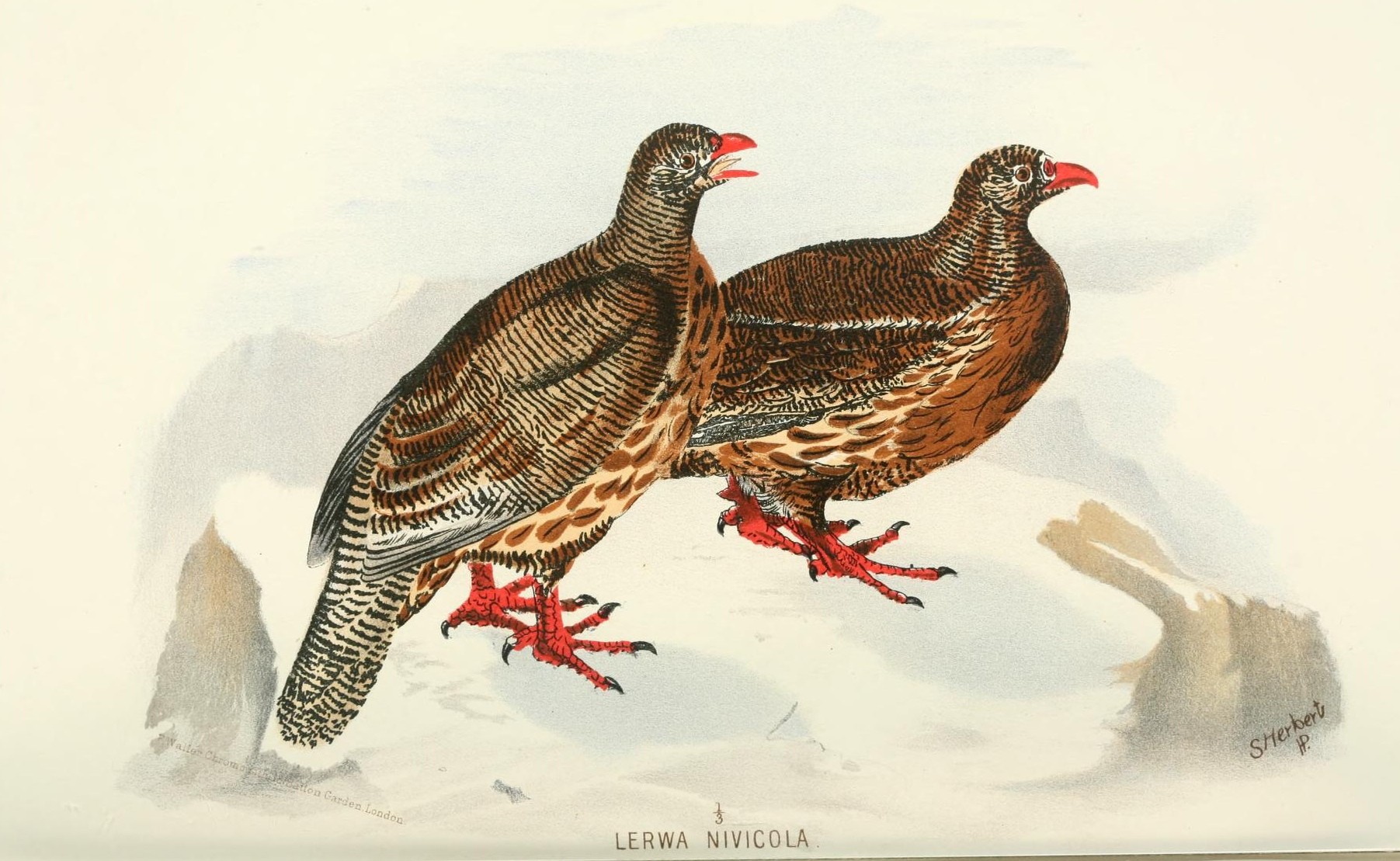 Lerwa nivicola = Lerwa lerwa (Snow Partridge)